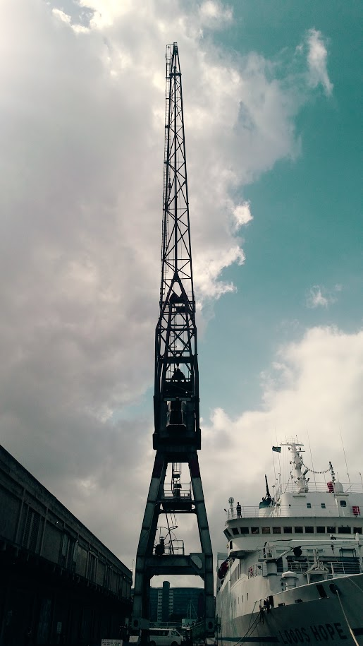 Bulk cargo cranes at Dat es salaam port